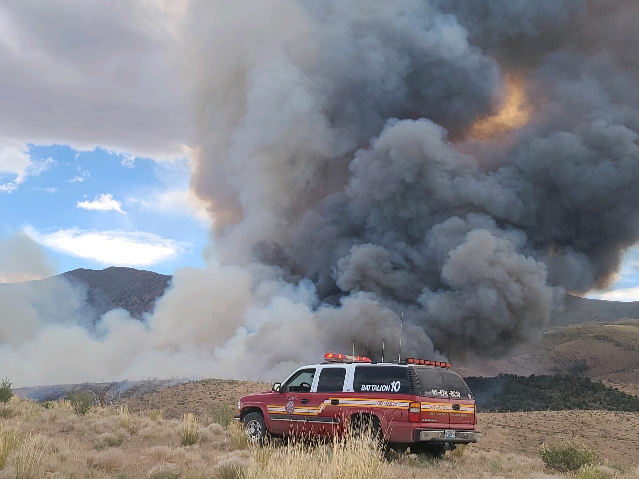 Monarch Fire by Larry Goss, East Fork FPD